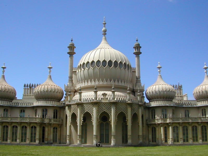 Royal Pavilion in Brighton, UK. I took this photo this morning, in between rain showers! It was a tiny bit wonky, but I tried to solve that with Gimp's rotate function, and trimmed the edges off. I also resized it, and magically it now fits onto my screen perfectly with wikipedia's layout.